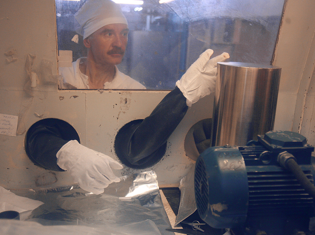 “Packing up processed ingots”. Packing up processed ingots at the OAO Novosibirsk Chemical Concentrates Works.